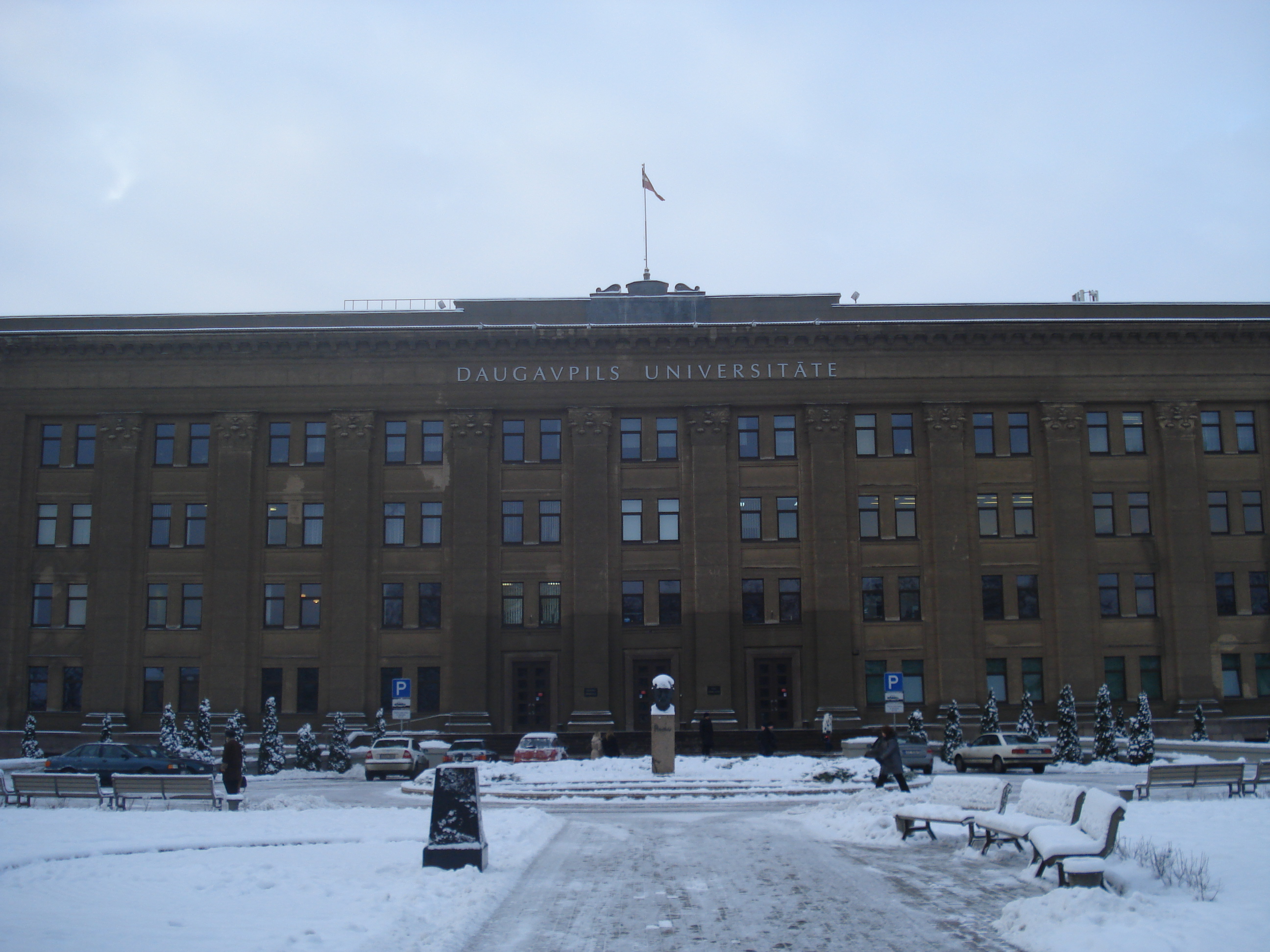 Daugavpils University. Main facade